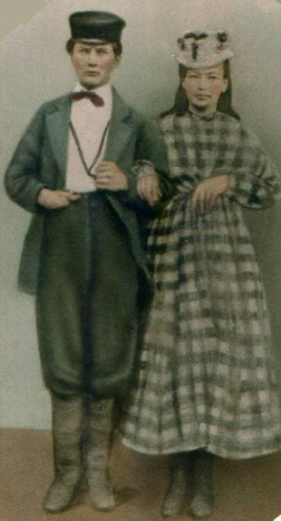 Joseph C. and Susan Combs Eversole on their wedding day - May 13, 1871 in Hazard, Kentucky